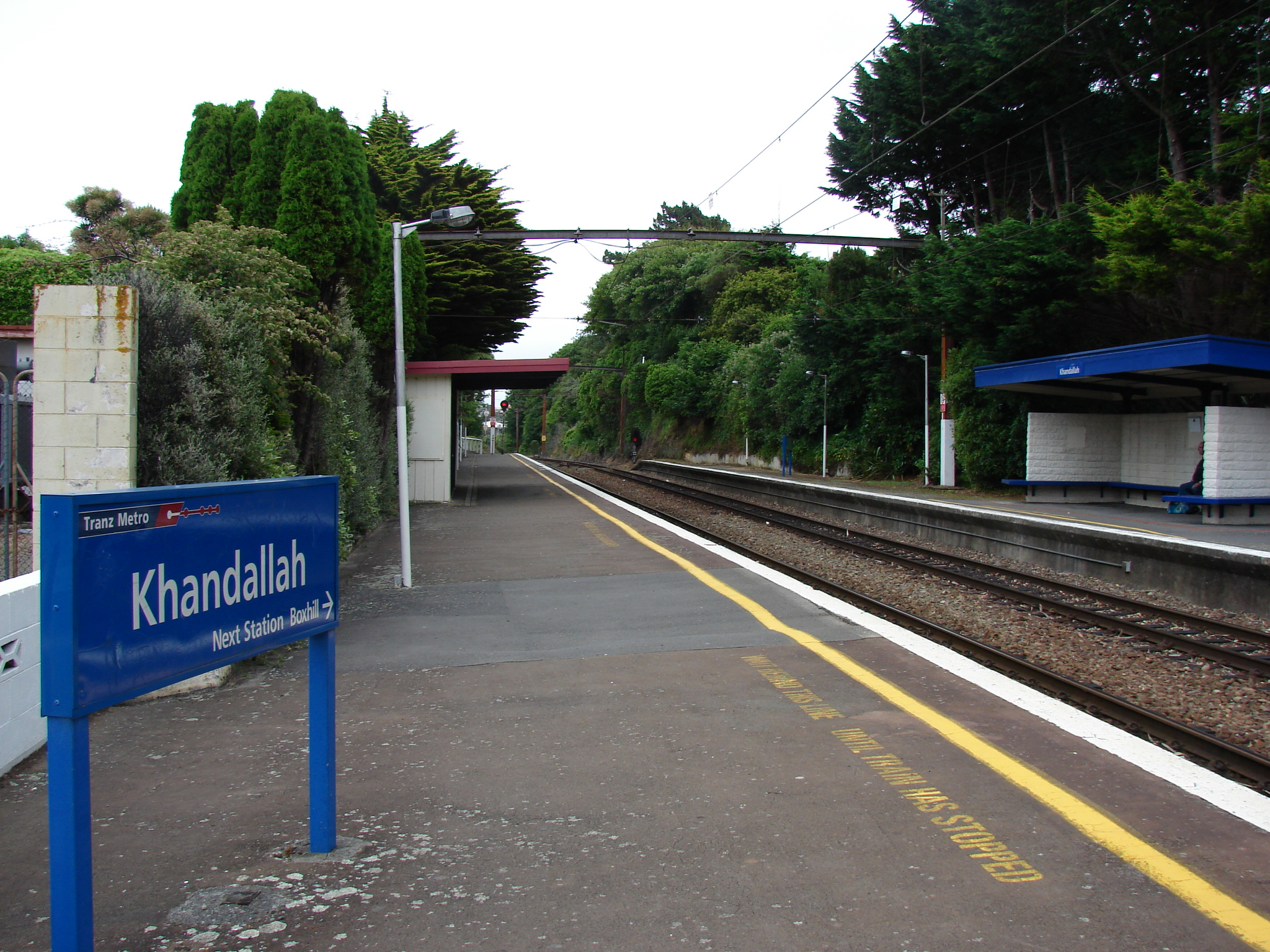 Khandallah railway station, looking south. Photographed by Matthew25187 on 2007-12-17.